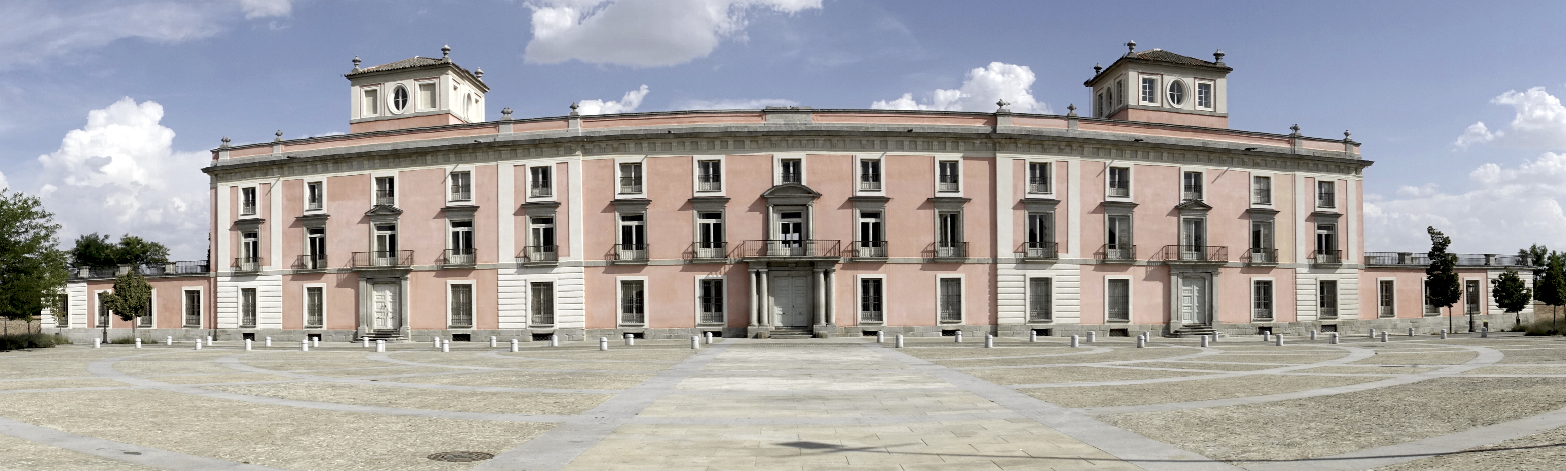 Palace of Infante don Luis is a palace built in 1765 and located in Boadilla del Monte, (Community of Madrid), Spain.